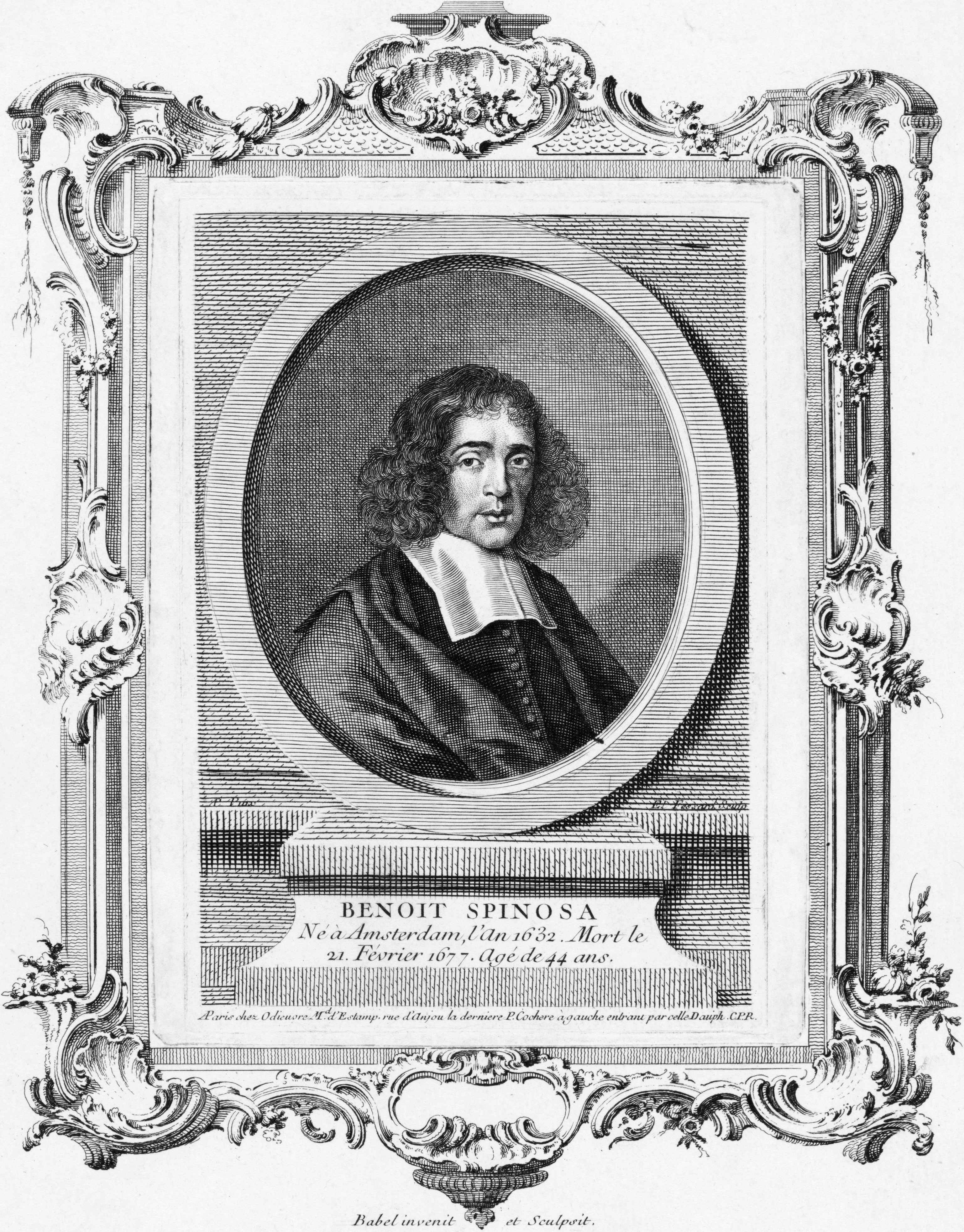 Benedictus de Spinoza (1632-1677). Engraving. Dimensions unknown.